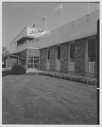 Title: Lord & Taylor, business in Manhasset, Long Island. Abstract/medium: Gottscho-Schleisner Collection (Library of Congress) Physical description: 1 negative